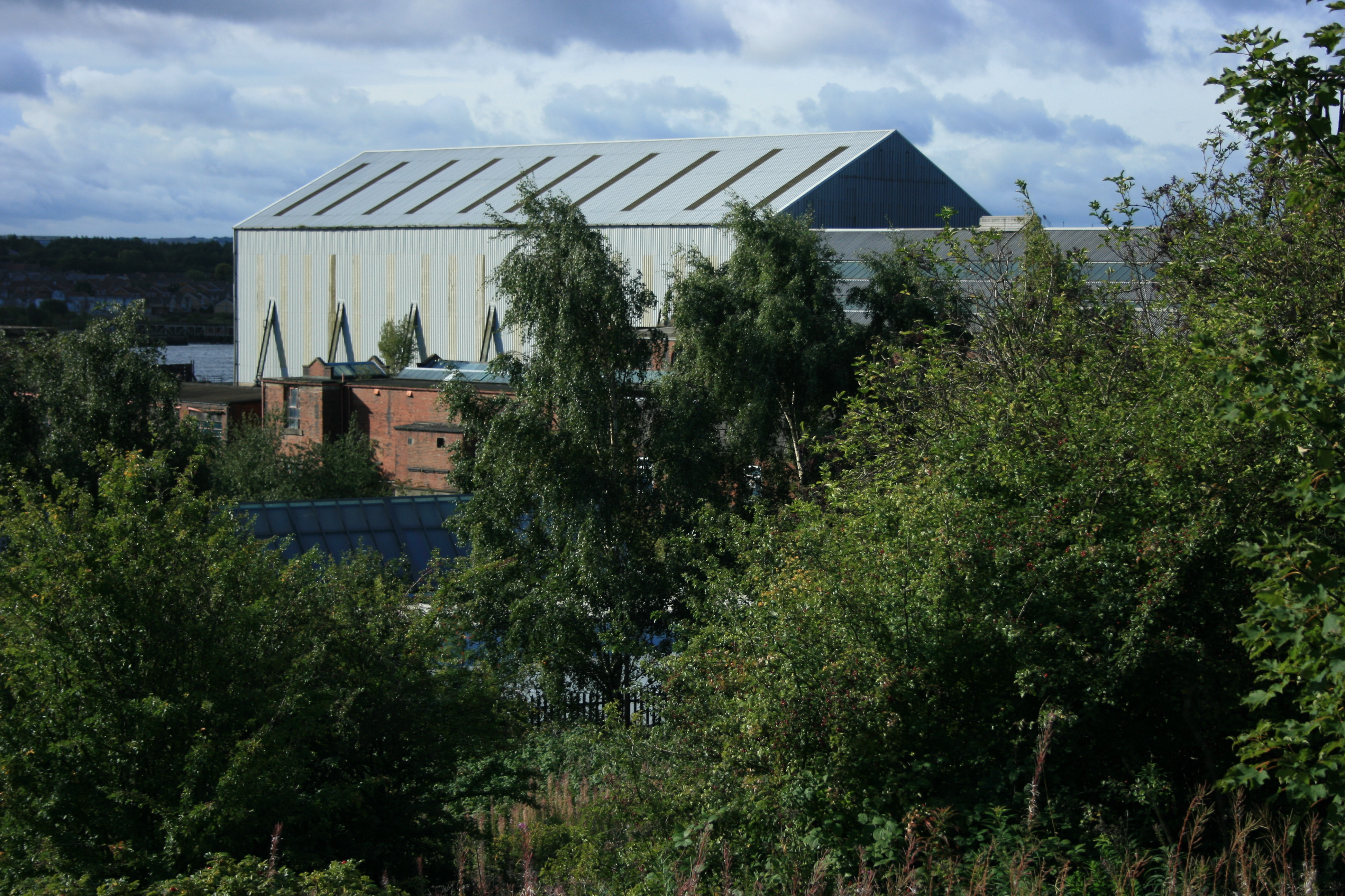 The remnants of Carville power station